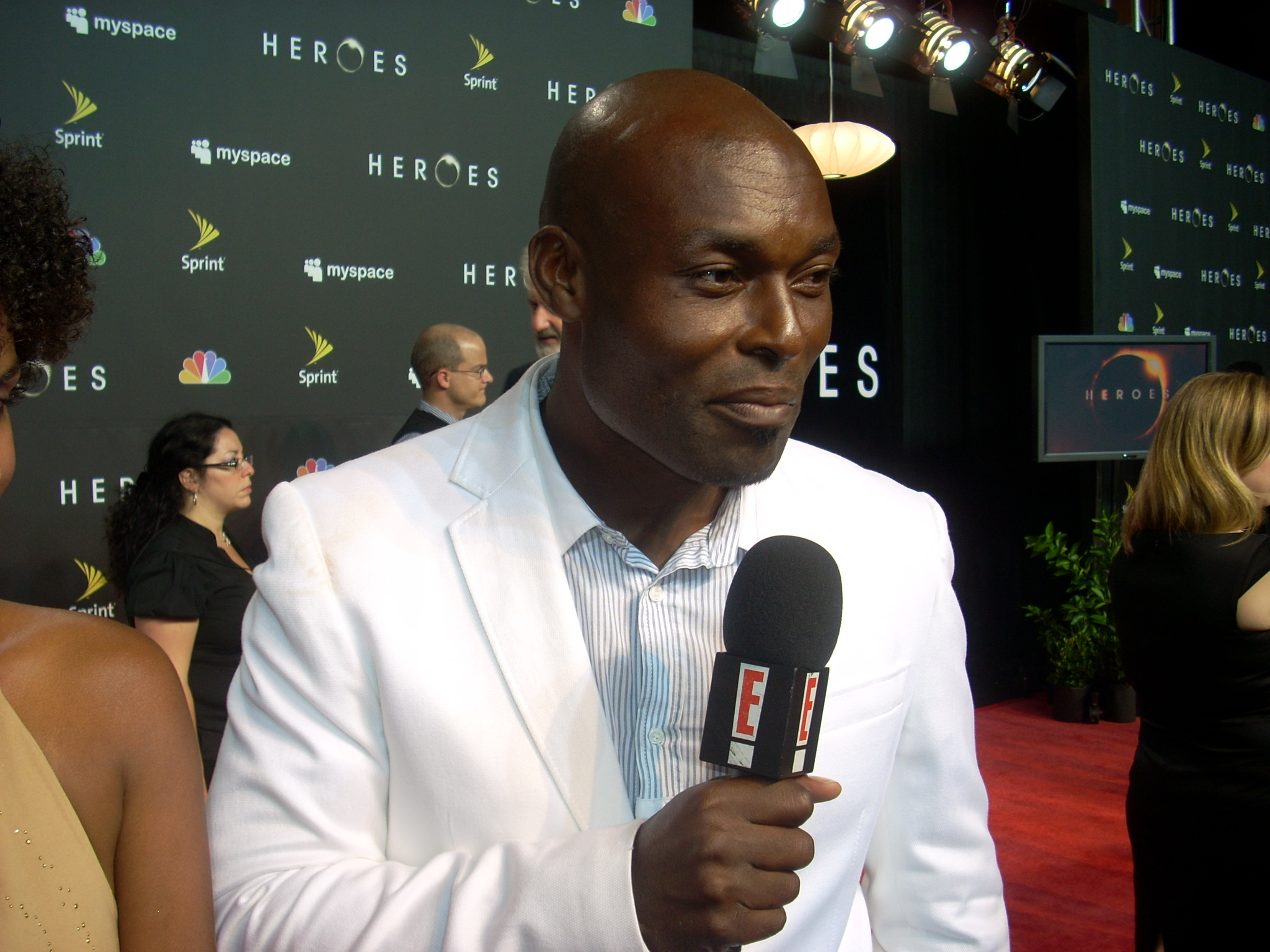 "Heroes" Season Three Premiere Party, Edison L.A., Downtown Los Angeles - Sept. 7, 2008